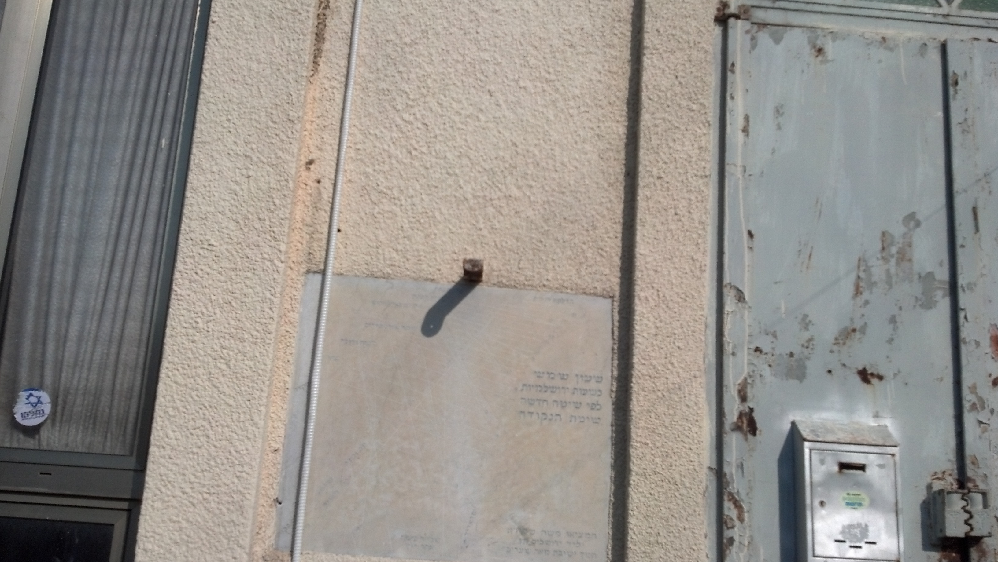 The sundial on the wall of The Great Synagogue in Petach Tiqva, Israel